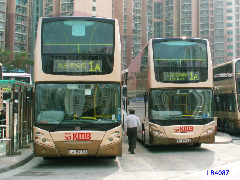 Two KMB Alexander Dennis Enviro 500 buses